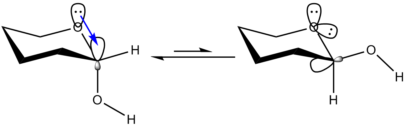 Hyperconjugation in anomeric effect